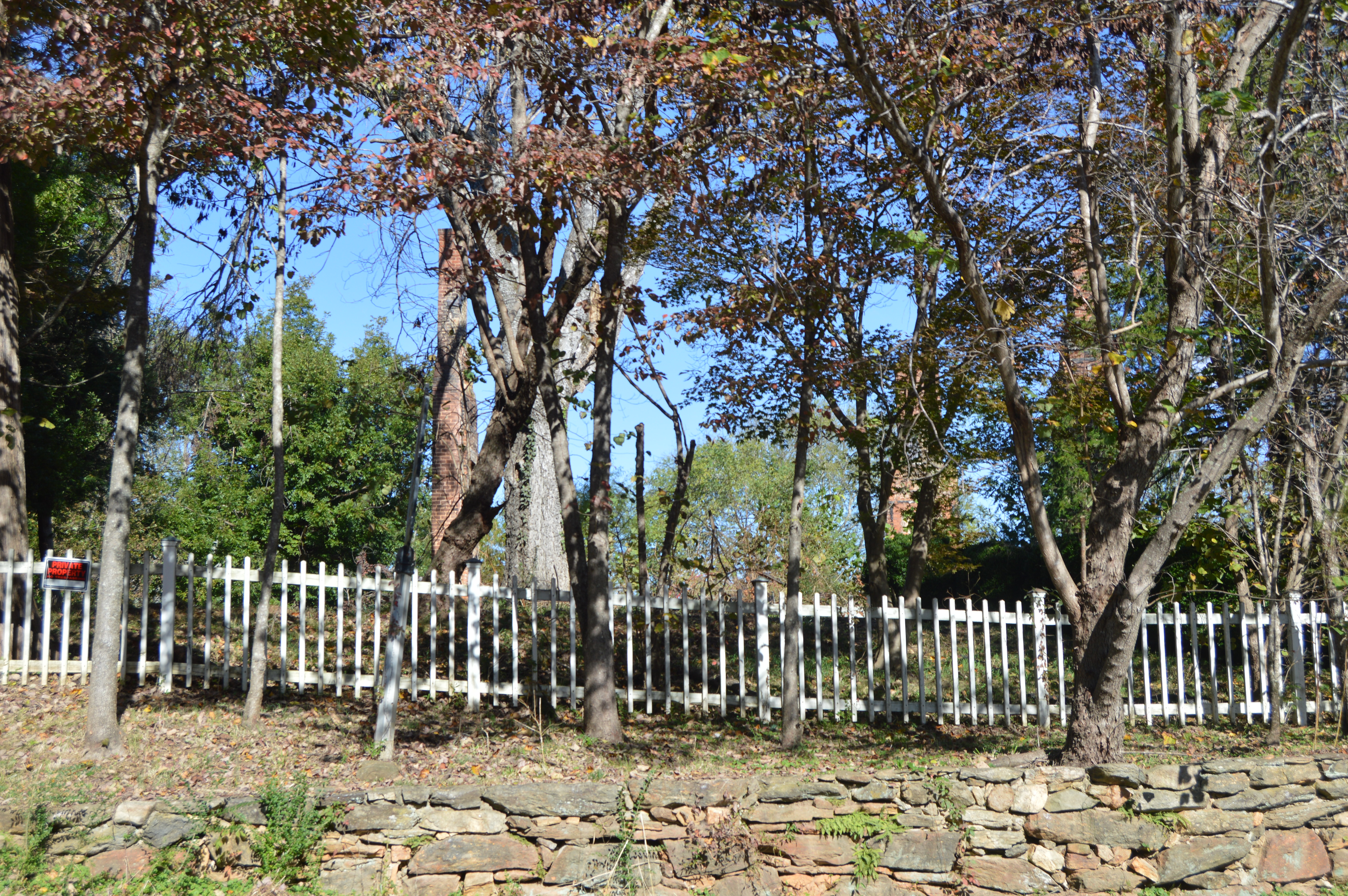 Roadside view of the site of the former Longwood plantation, located on North Carolina Highway 62 southwest of Milton in Caswell County, North Carolina, United States. The plantation was listed on the National Register of Historic Places in 1976, and although nothing remains of the house itself except for two chimneys, it is still listed on the Register.